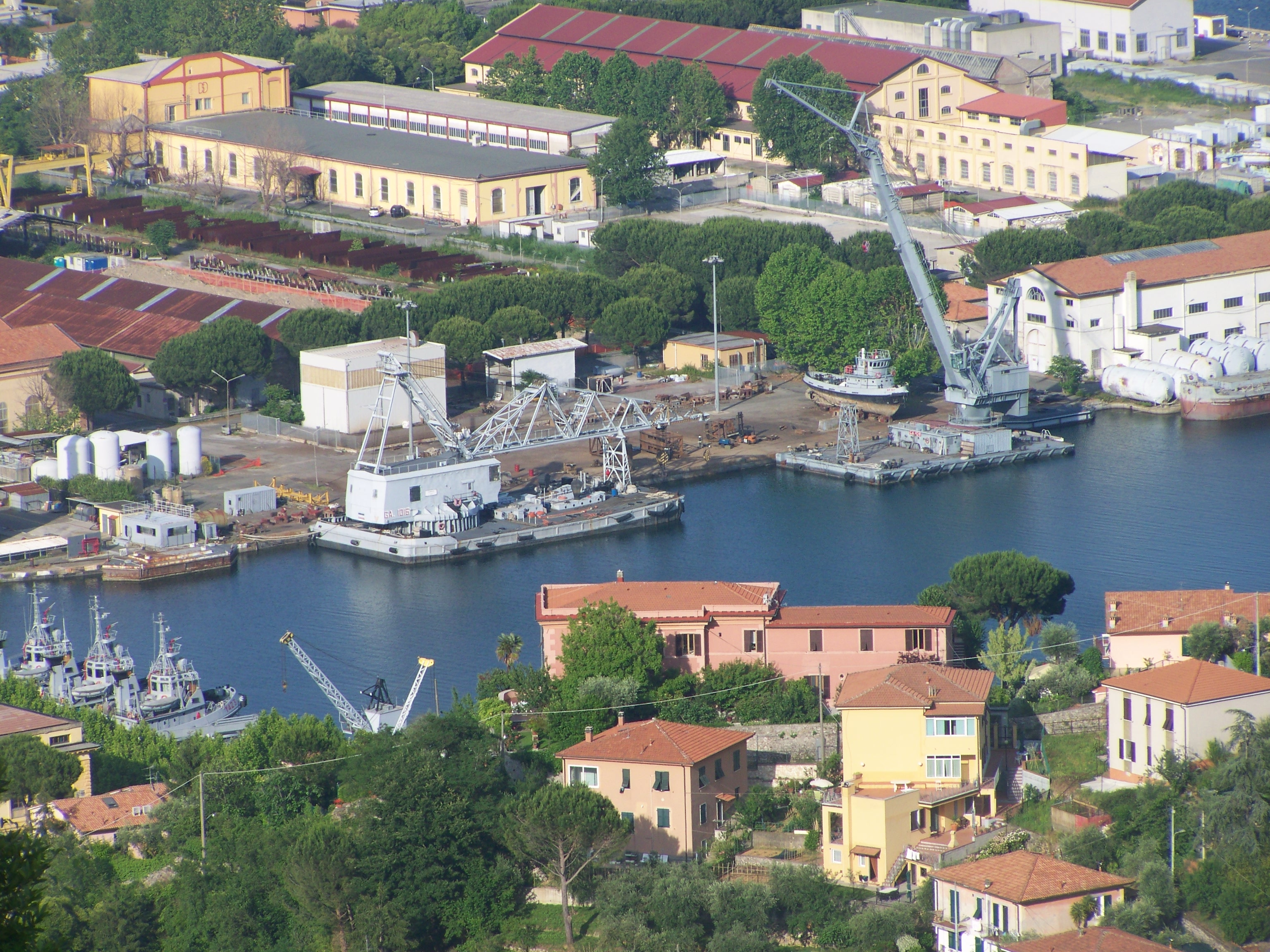 view